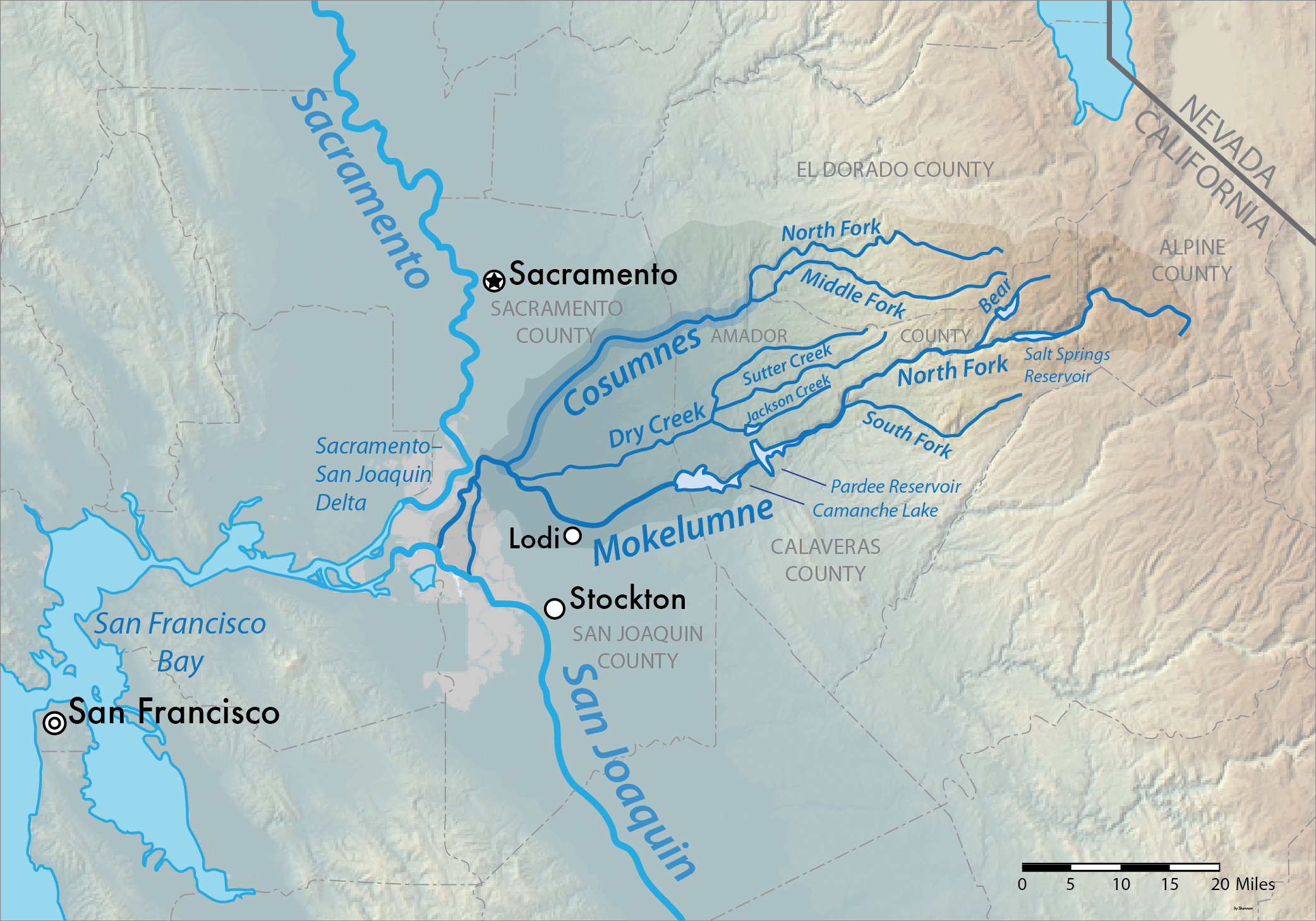 Map of the Mokelumne River watershed in California, USA with the Cosumnes River tributary highlighted.